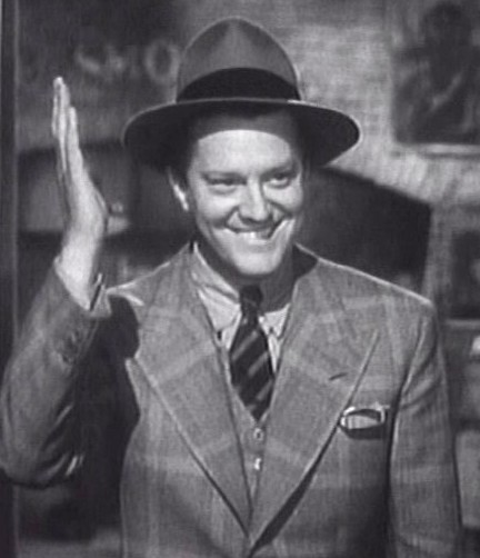 Cropped screenshot of Michael O'Shea from the film Lady of Burlesque.